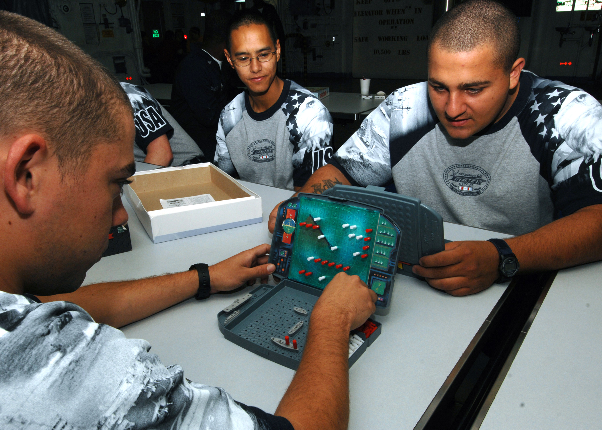 ATLANTIC OCEAN (May 30, 2010) Aviation Ordnanceman Airman Justin Stout and Aviation Electronics Technician Airman Anthony Bertolino spend their break playing the game Battleship aboard the Nimitz-class aircraft carrier USS Harry S. Truman (CVN 75). Harris S. Truman is deployed as part of the Harry S. Truman Carrier Strike Group supporting maritime security operations and theater security cooperation efforts in the U.S. 5th and 6th Fleet areas of responsibility. (U.S. Navy photo by Mass Communication Specialist 3rd Class David R Finley Jr./Released)